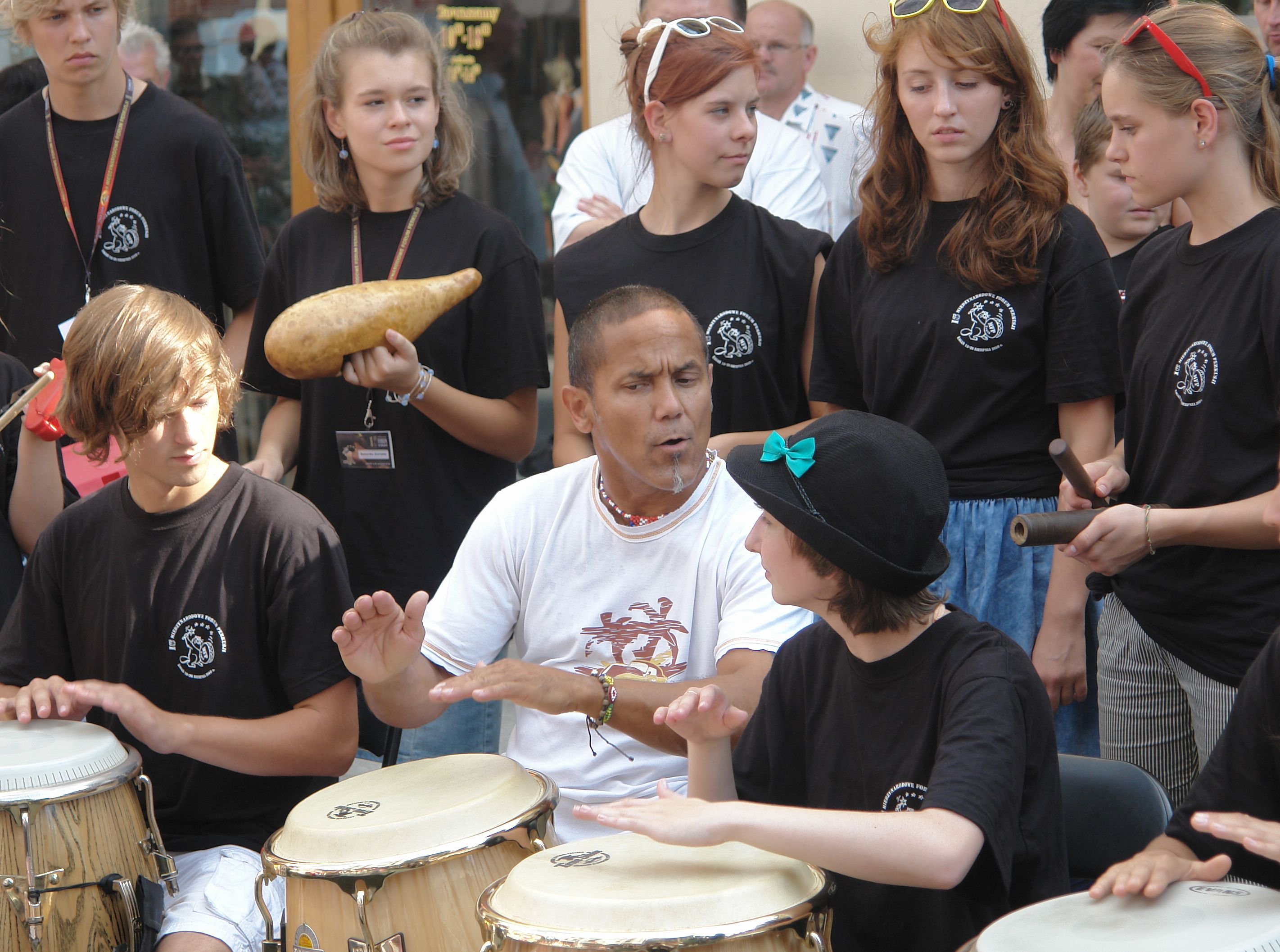 Jose Torres, a Cuban percussionist (a TV celebrity in Poland)